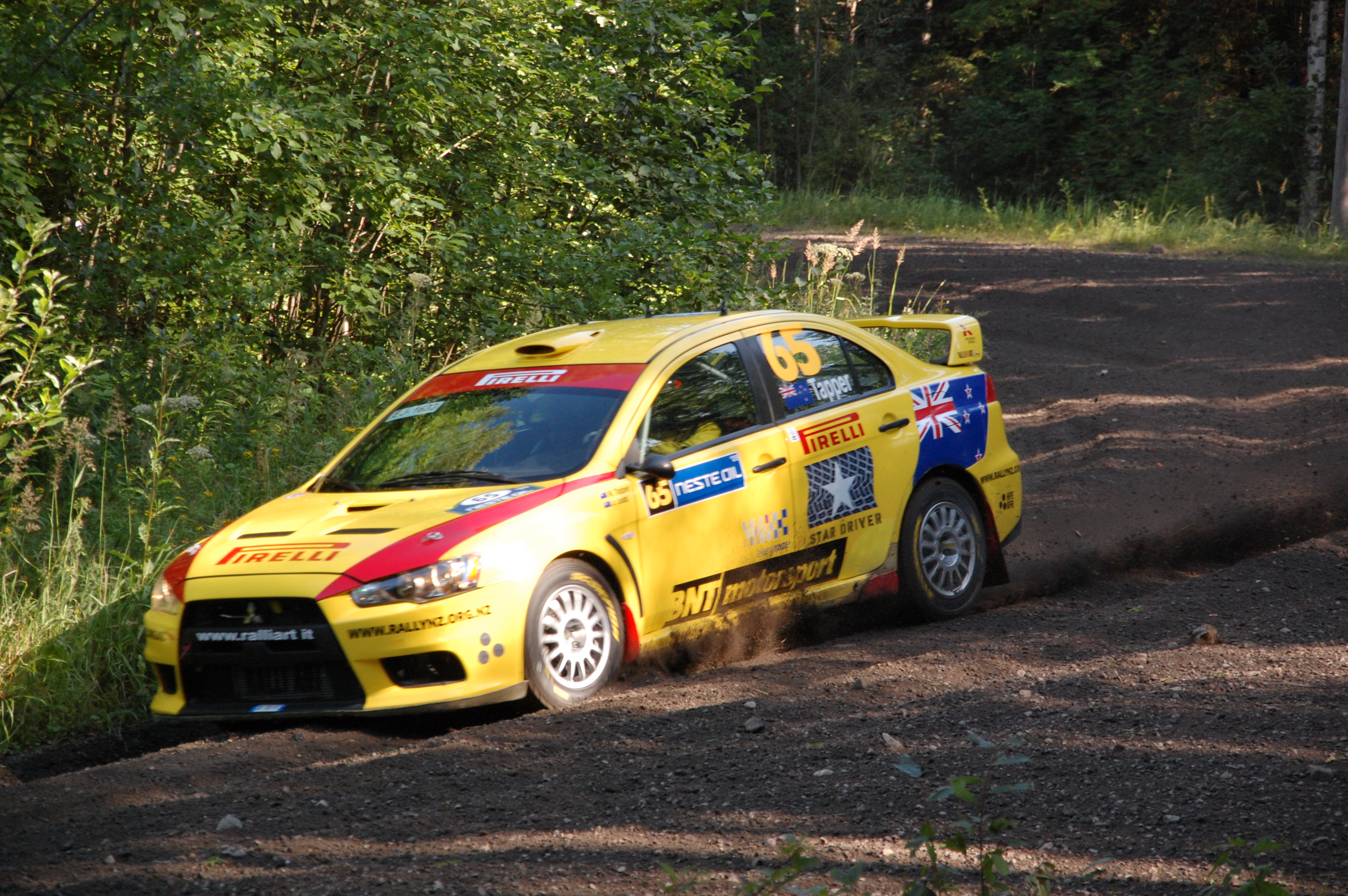 Mark Tapper - 2009 Rally Finland. More pictures on my website